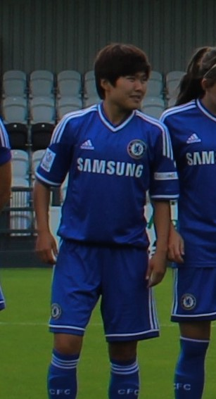 Ji So-yun before the Continental Cup game